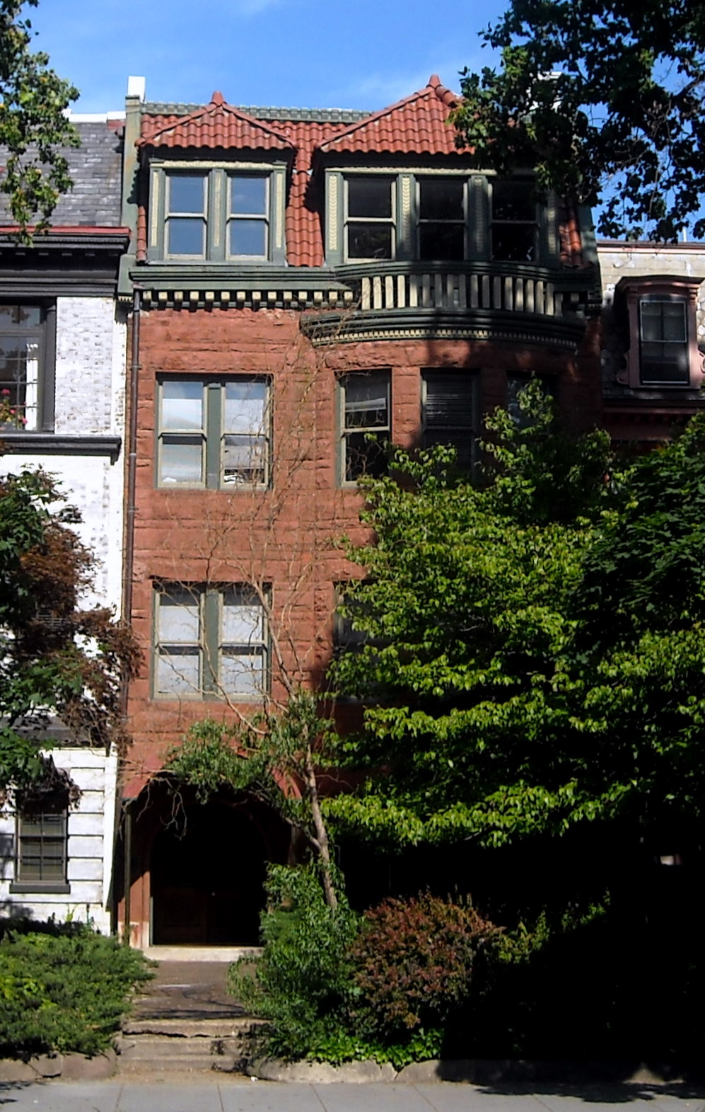 The Robert Simpson Woodward House, now occupied by the Capital Research Center, located at 1513 16th Street NW in the Dupont Circle neighborhood of Washington, D.C. The Richardsonian Romanesque building served as the residence of the Carnegie Institution of Washington's first president. Constructed in 1895, the four-story building is a National Historic Landmark and a contributing property to the Sixteenth Street Historic District.